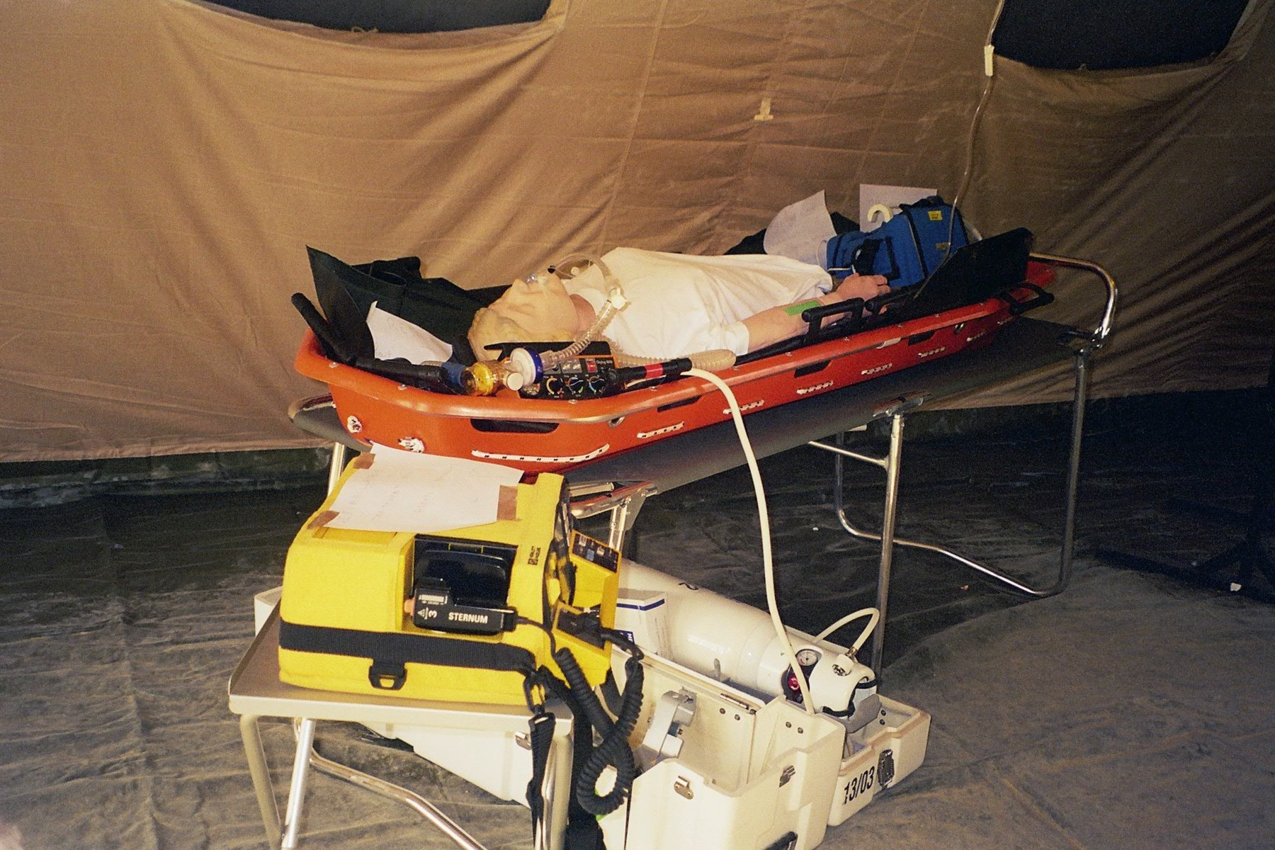 Nation/Defense days, Esplanade des Invalides, Paris, France, September 24-25, 2005